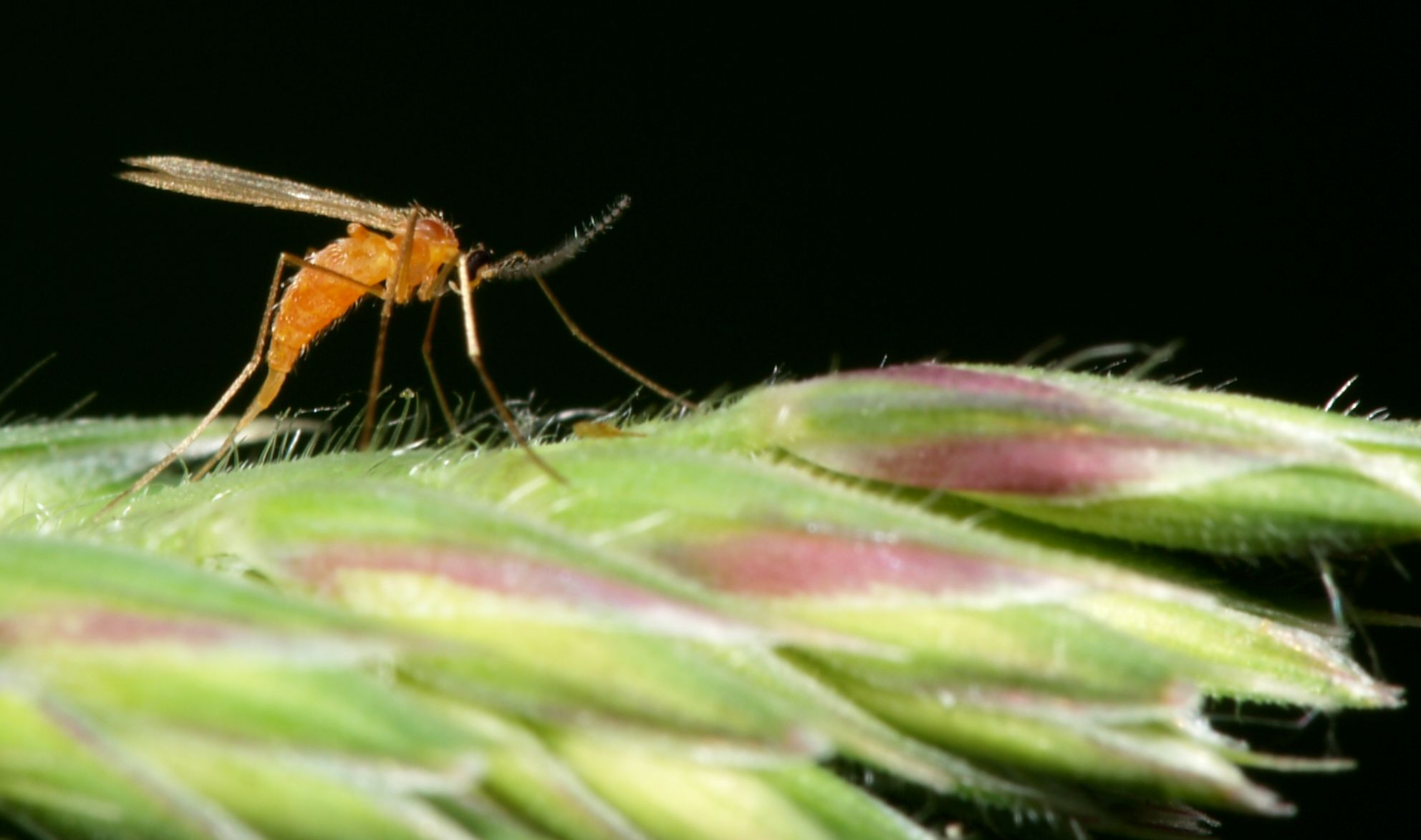 Undetermined species of Cecidomyiidae laying eggs into undetermined grass, at Königsforst near Cologne, Germany.